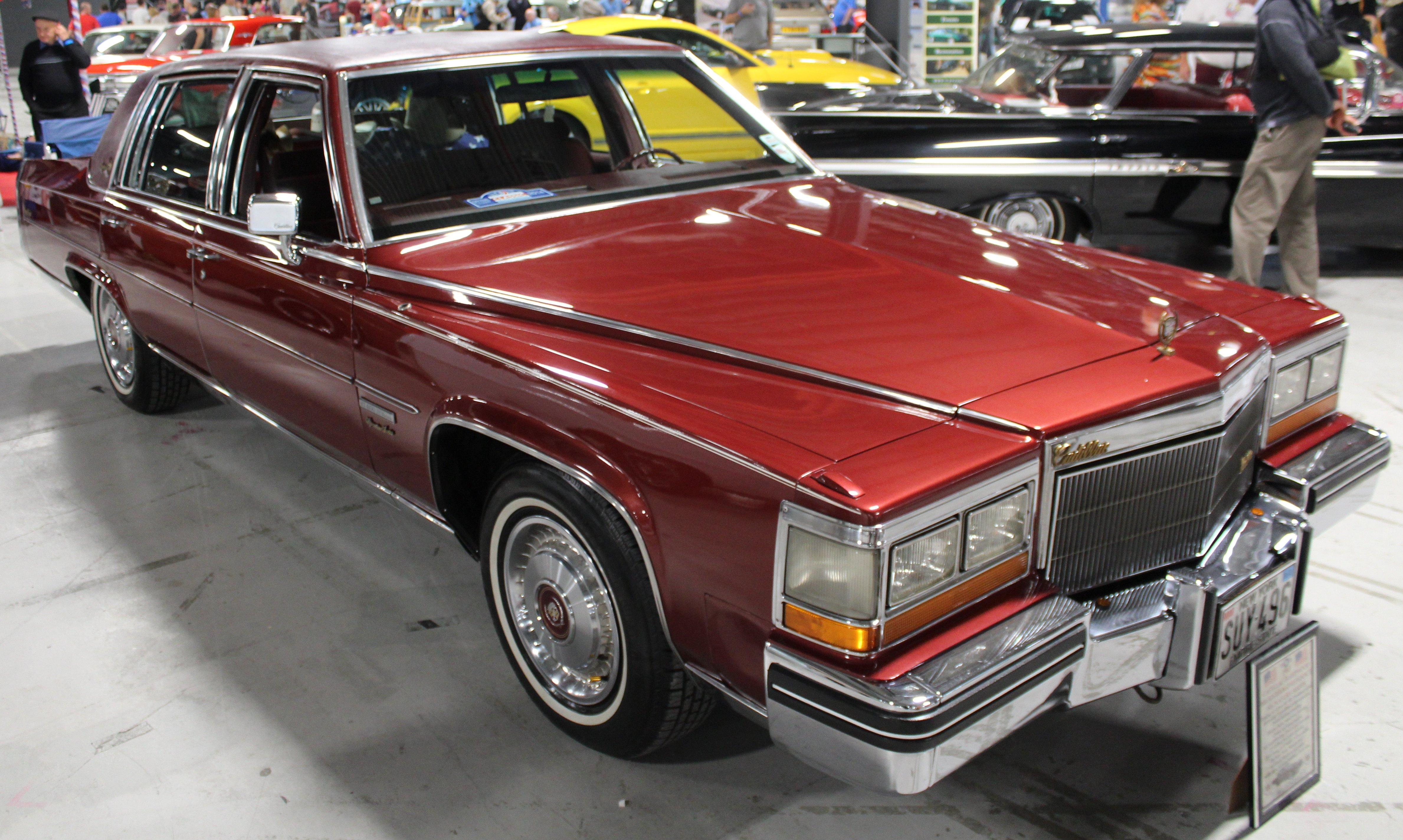 kind of cool